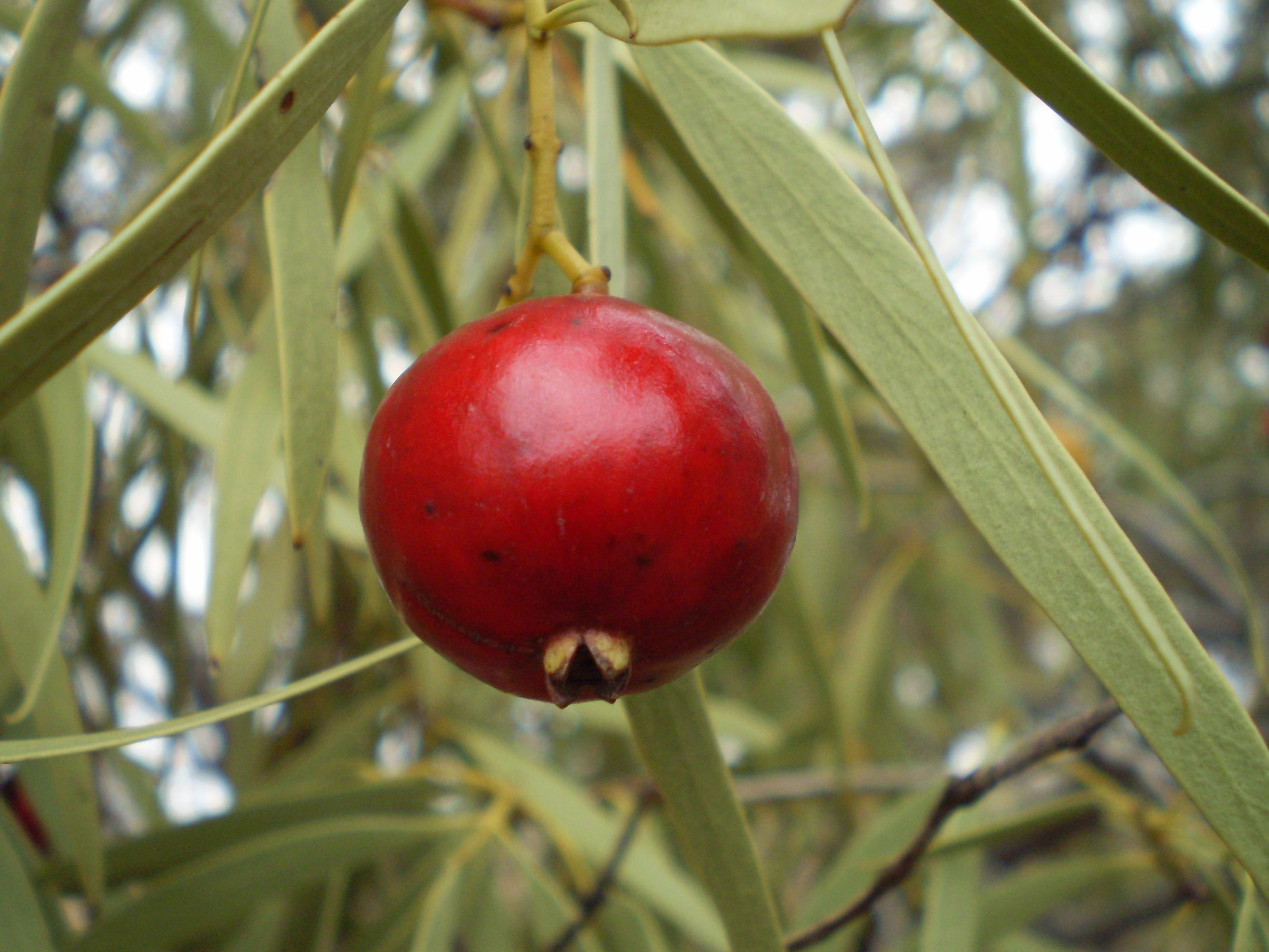 Santalum acuminatum fruit, West Wylong, New South Wales, Australia.